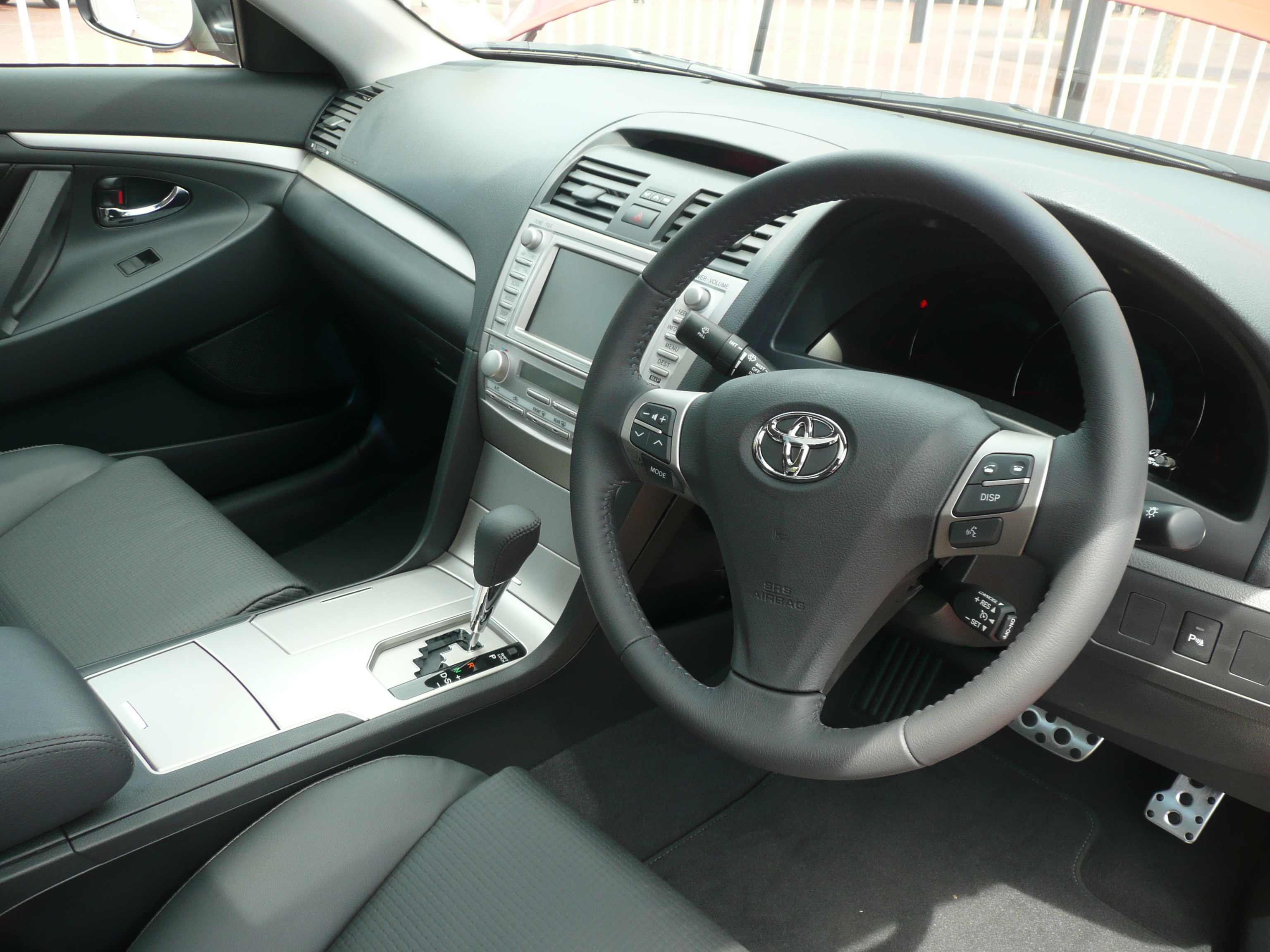 2008 Toyota Aurion (GSV40R) Sportivo ZR6 sedan. Photographed at the 2008 Australian International Motor Show, Sydney, New South Wales, Australia.